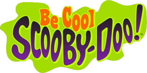 Logotype of Be Cool, Scooby-Doo!